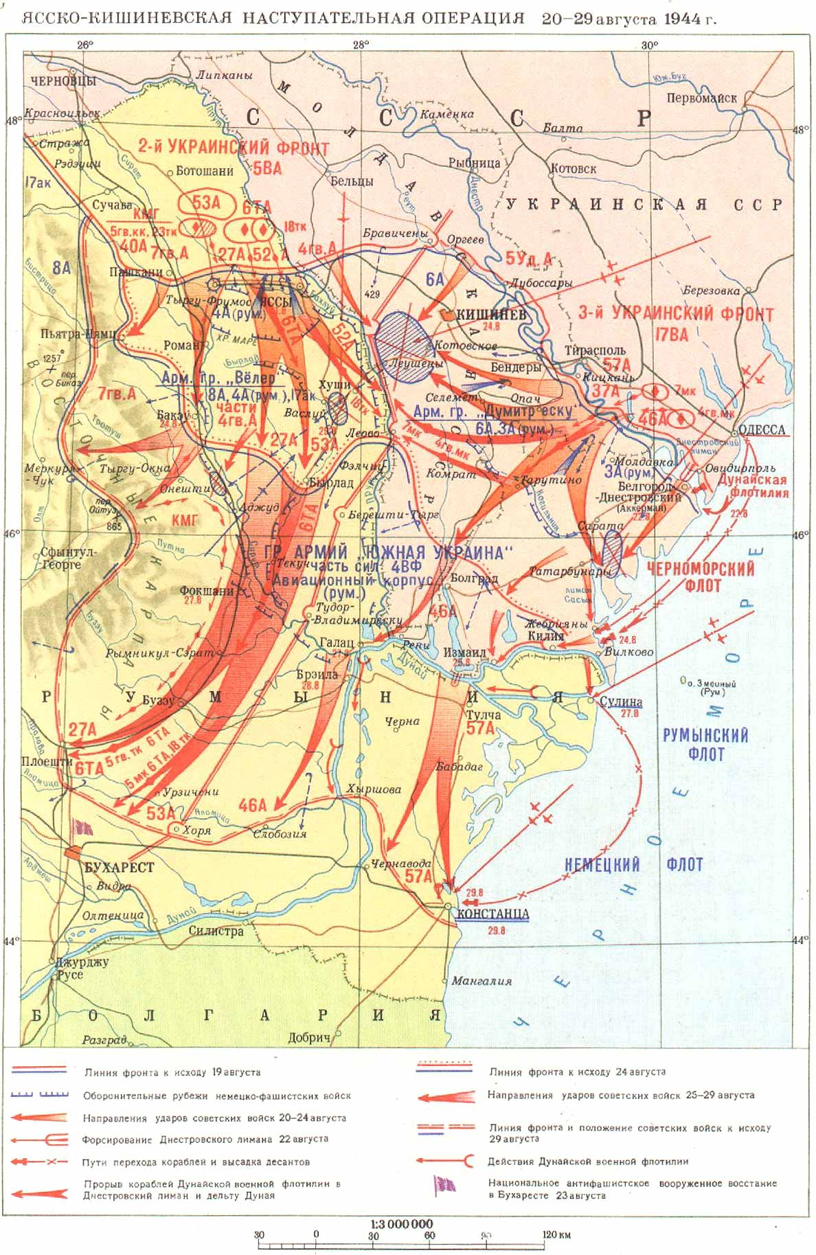 Jassy–Kishinev Offensive